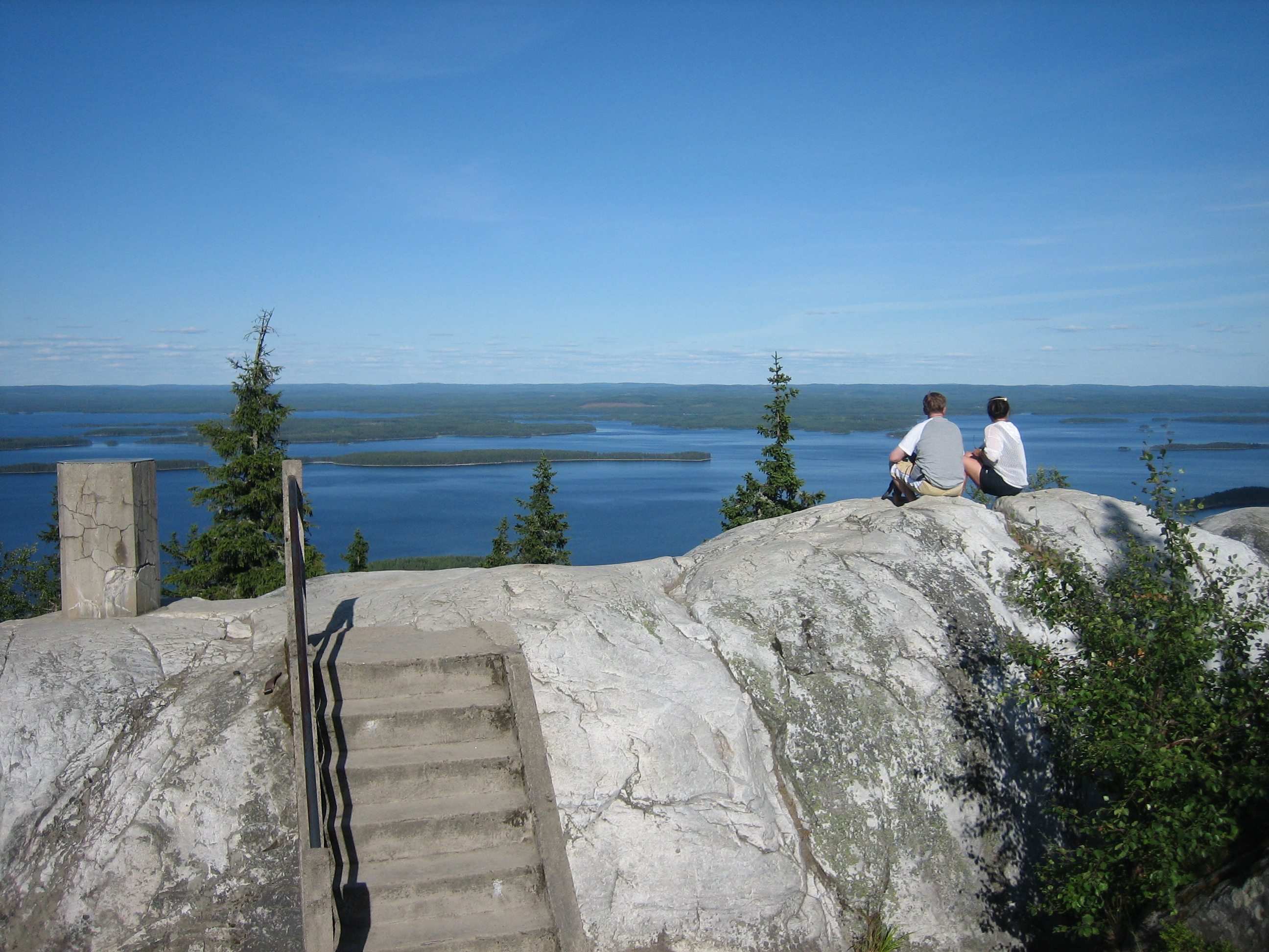 People at the top of Koli in Lieksa, Finland